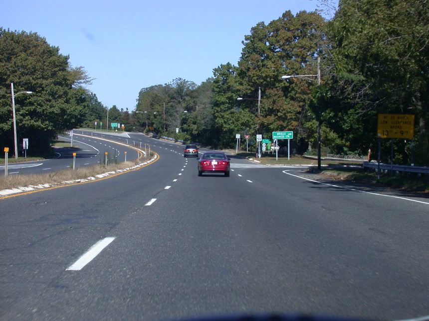 Route 35 northbound just over the Brielle Bridge and approaching Route 71